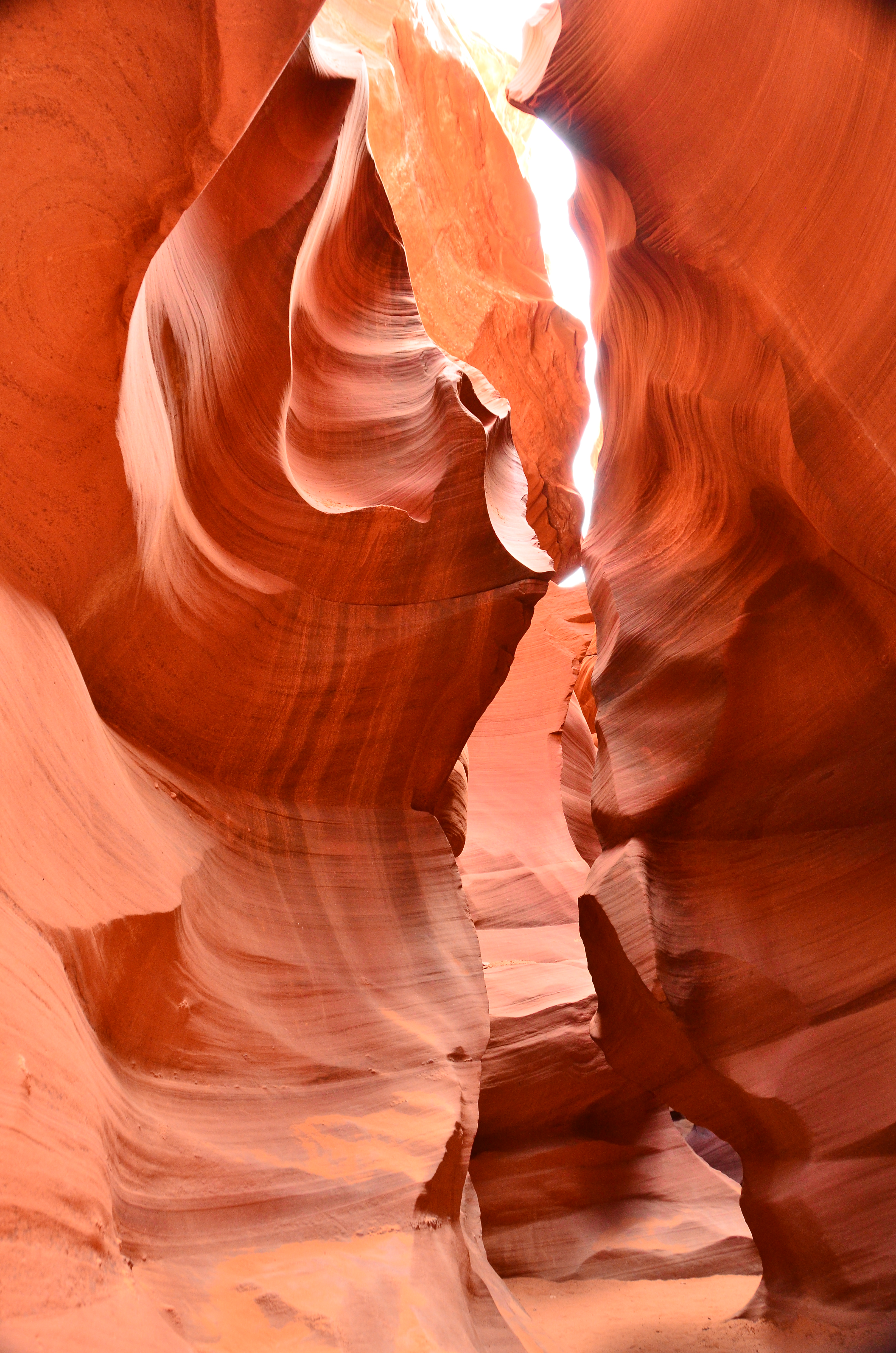 Lower Antelope Canyon, Page, Arizona